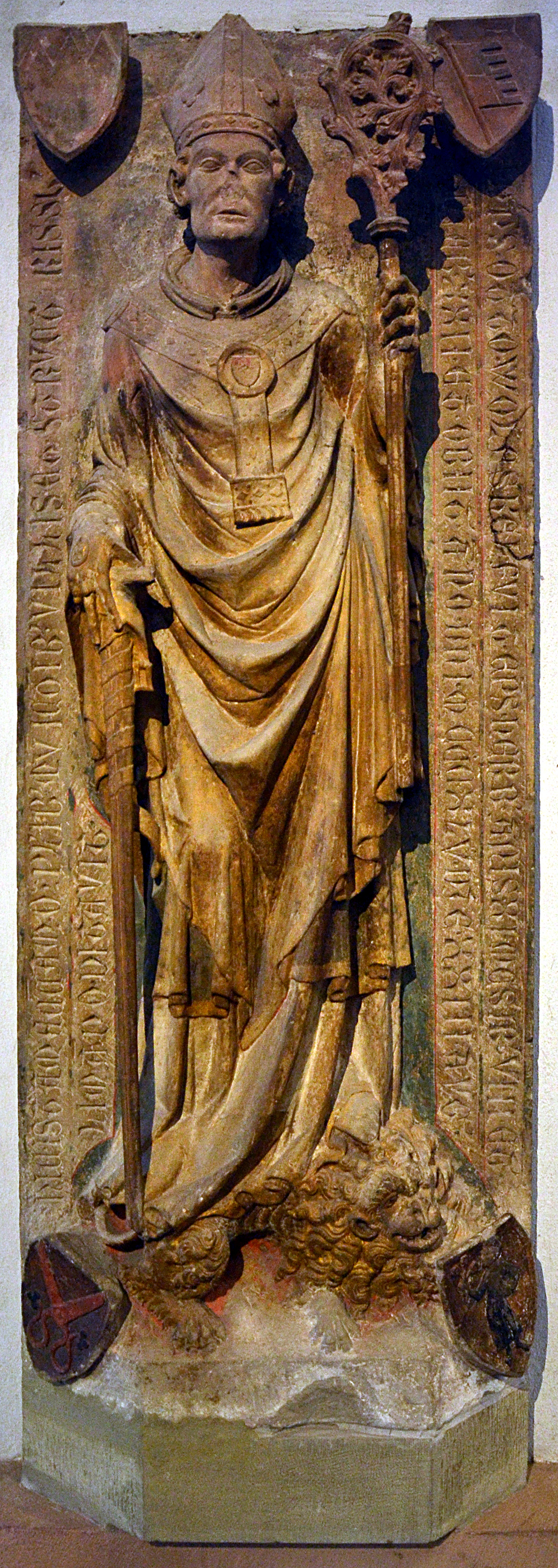 grave of Otto II von Wolfskeel